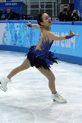 Mao Asada during her free program "Piano Concerto No. 2 " at the 2014 Winter Olympics.